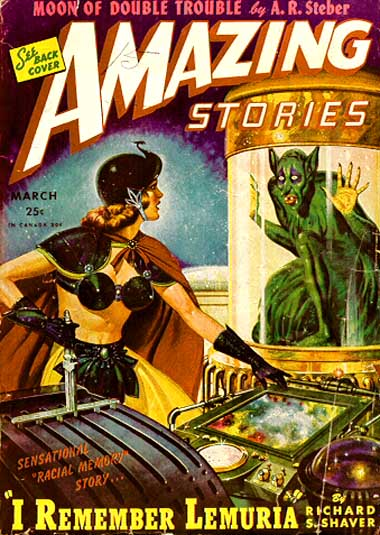 Copy of Amazing Stories, March 1945